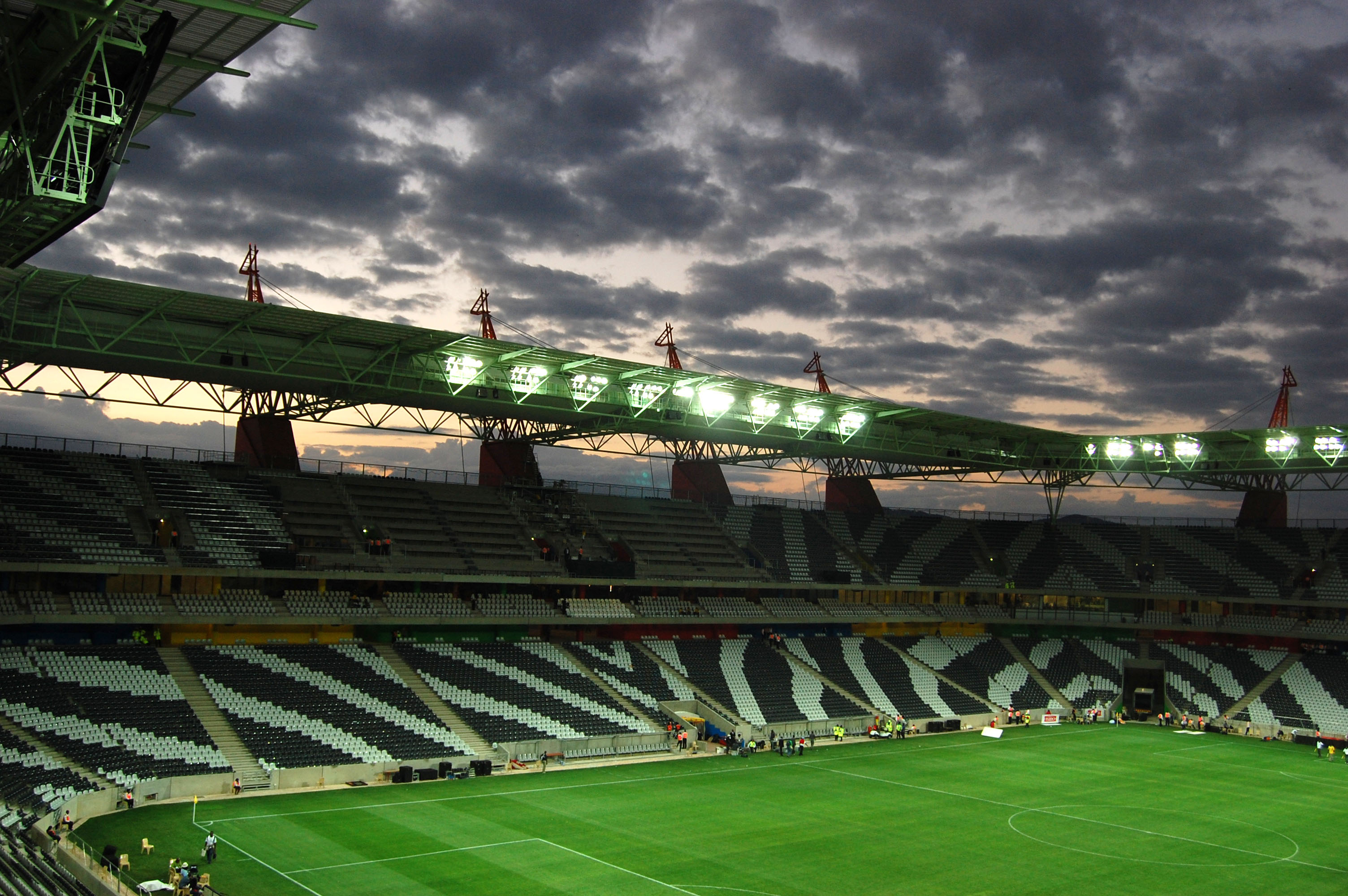 Mbombela Stadium arena view after the inaugral match played at the venue